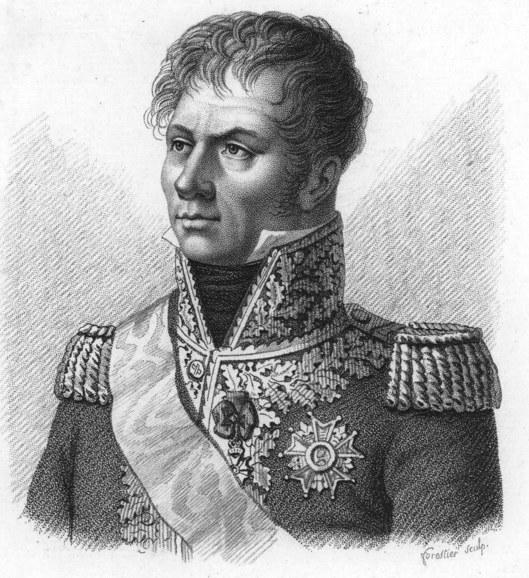 Laurence de Bouvion Saint-Cyr (1764-1830, Napoleonic Field Marshall.